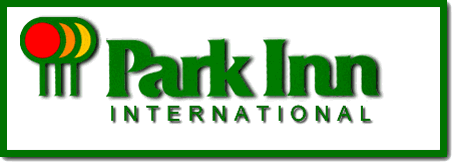 Park Inn International is a hotel chain founded in the United States in 1986. It was renamed to just Park Inn, and then Park Inn by Radisson in 2010